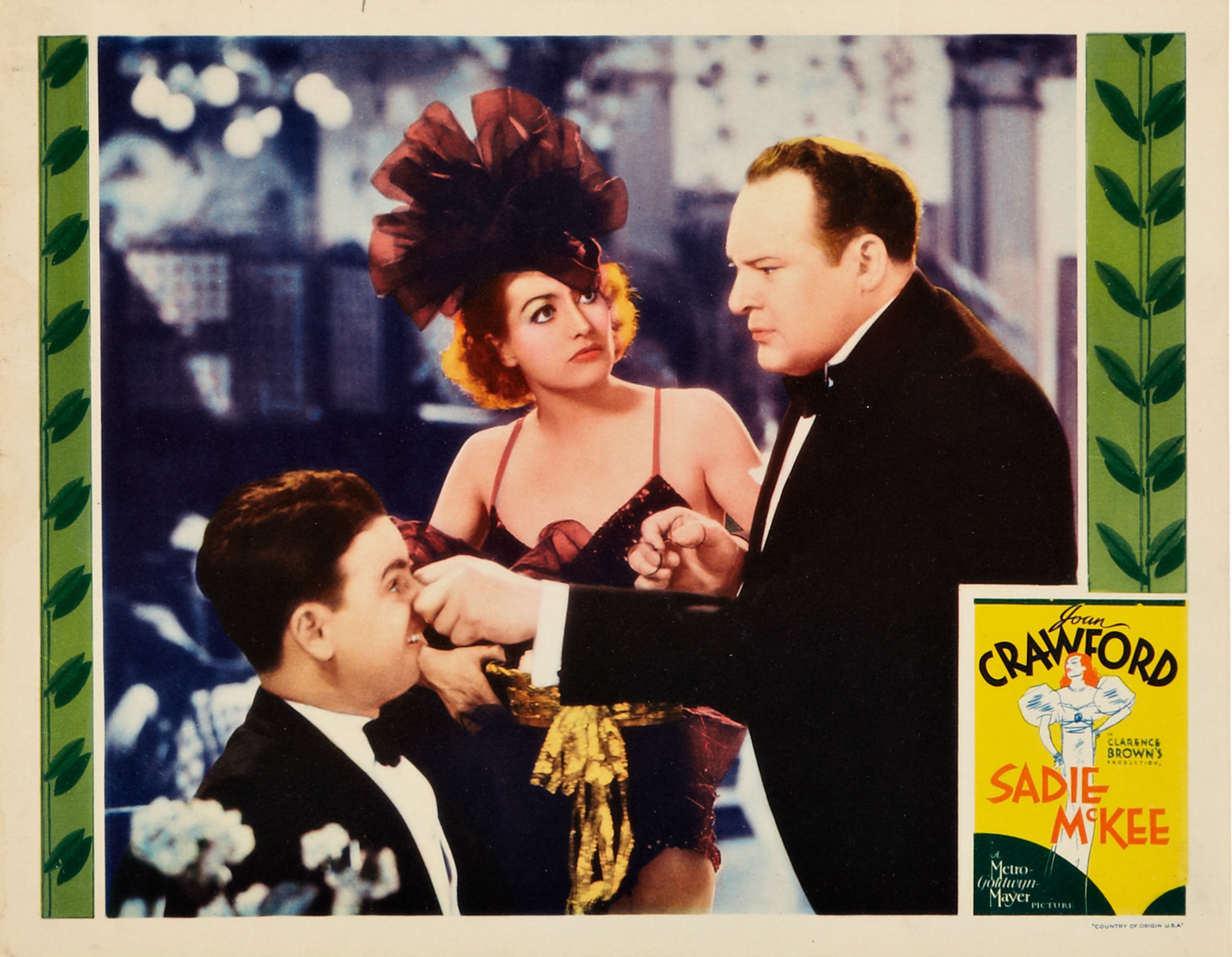 Lobby card for the 1934 film Sadie McKee.